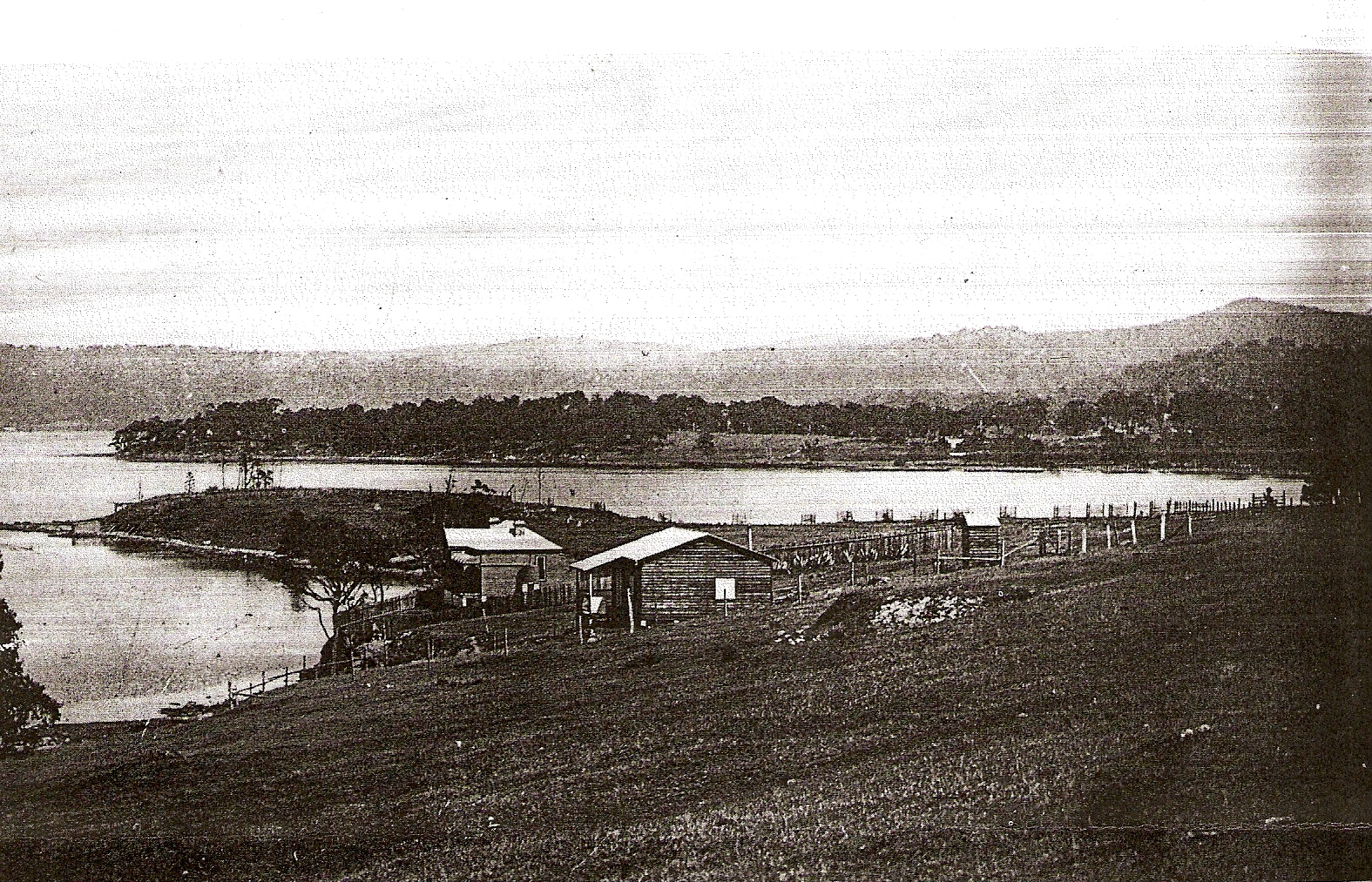 The caption of the picture reads: A startling contrast can be drawn between this view of Peek's Point, East Gosford, and the way it looks today with its residential development. Caroline Bay and Point Frederick are in the background.